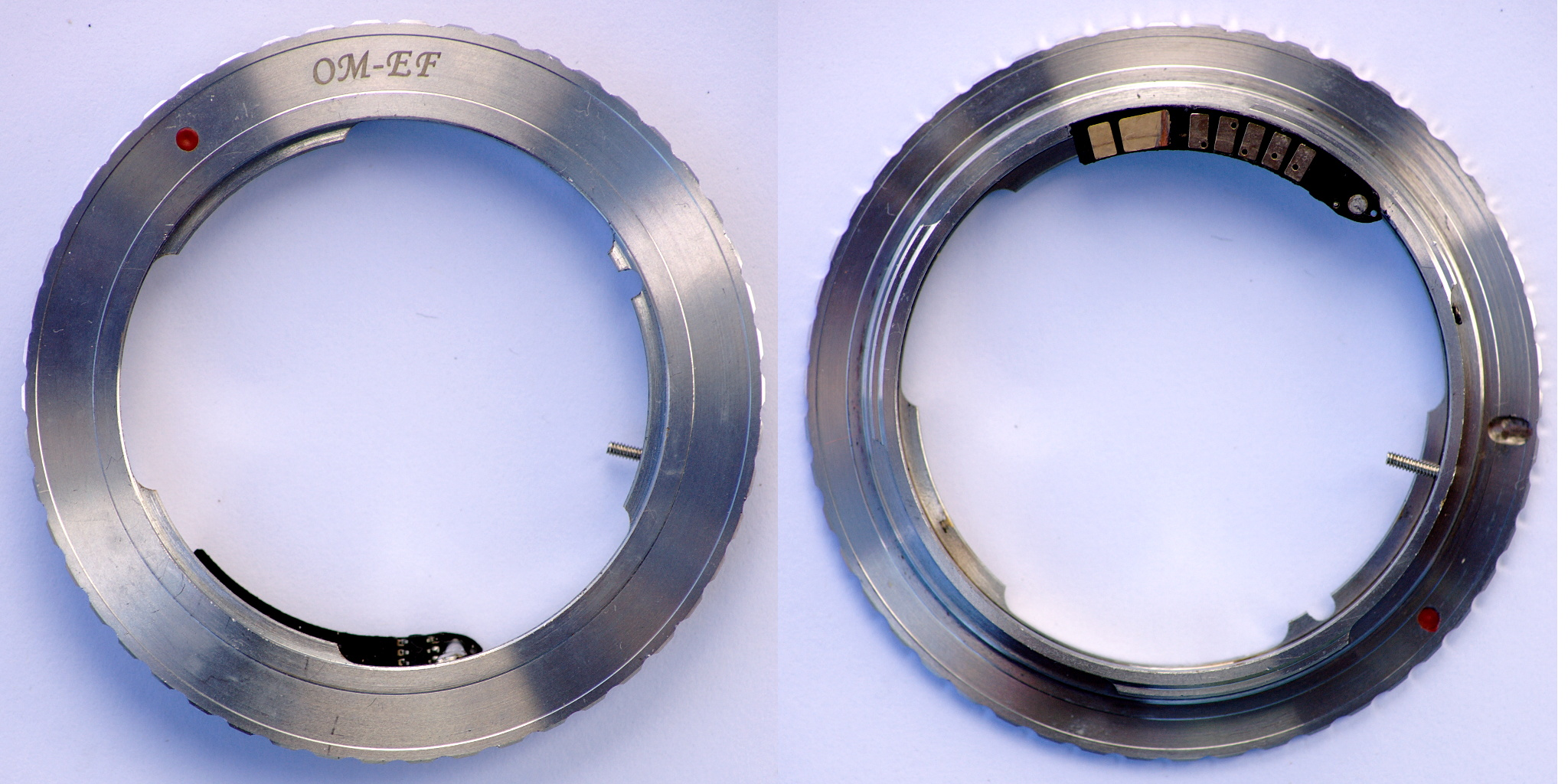 Olympus OM - Canon EOS Adapter with Dandelion Focus Confirmation Chip